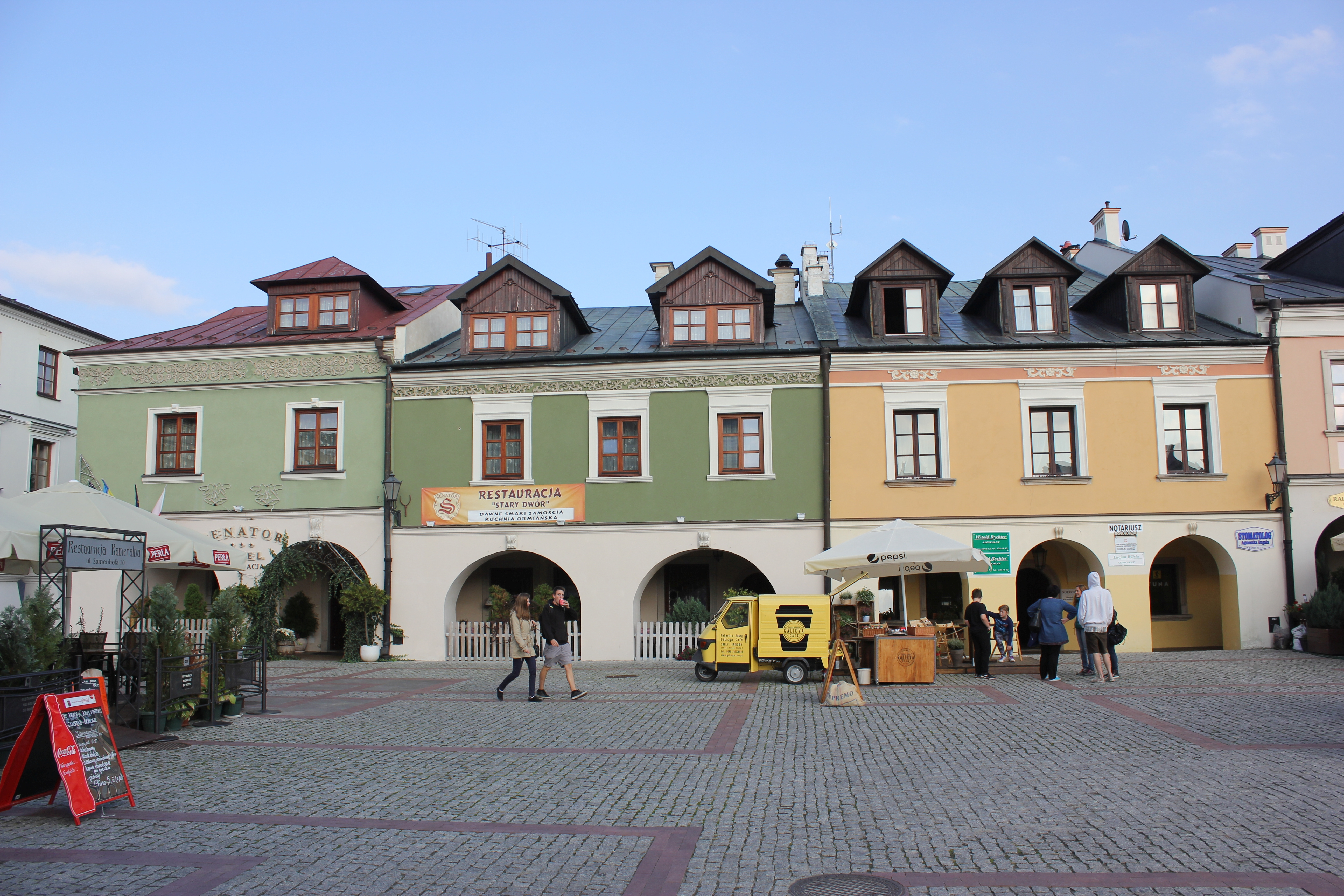 Zamość - Salt Market